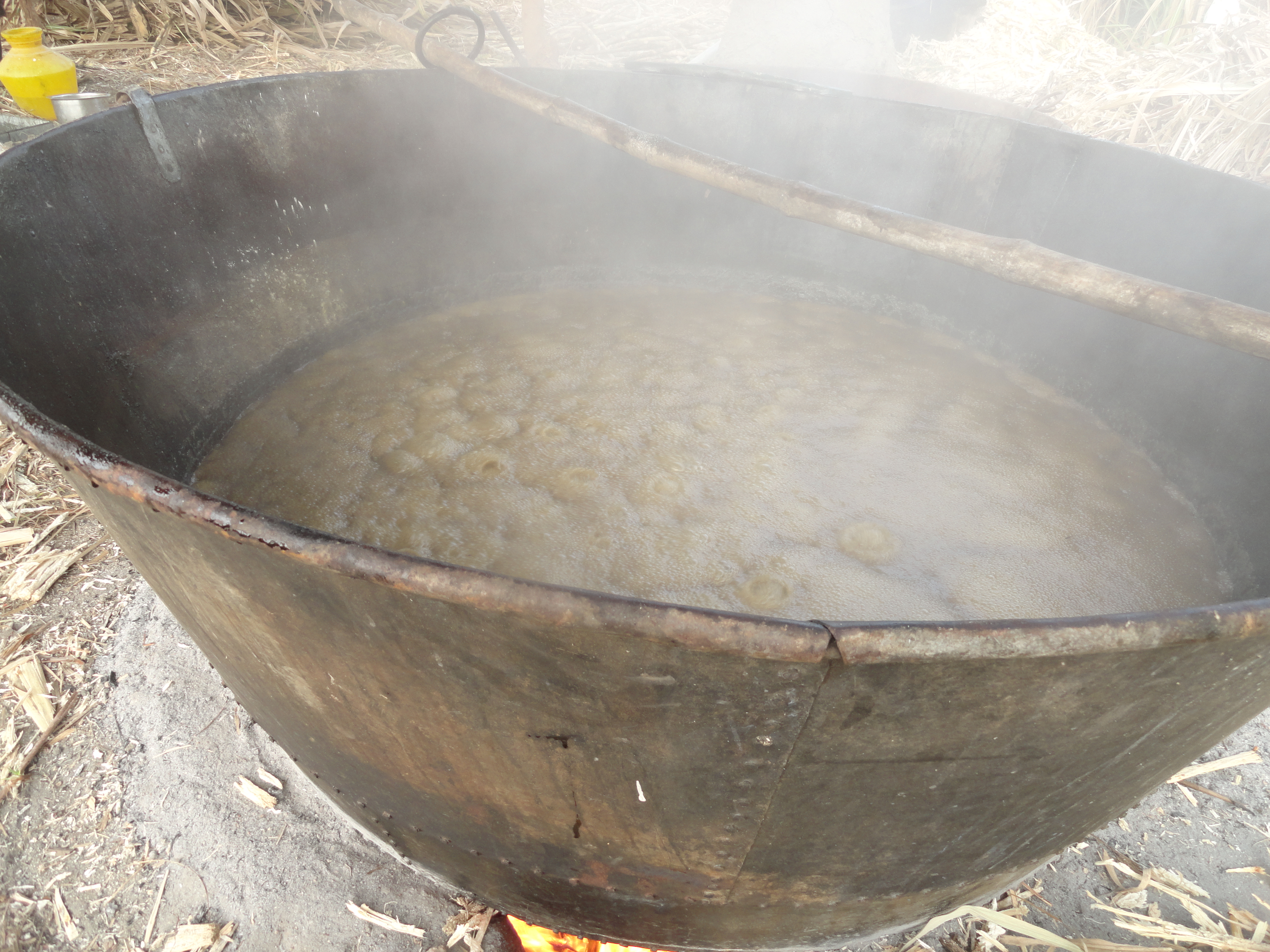 boiling sugar cane juice to prepare joggery